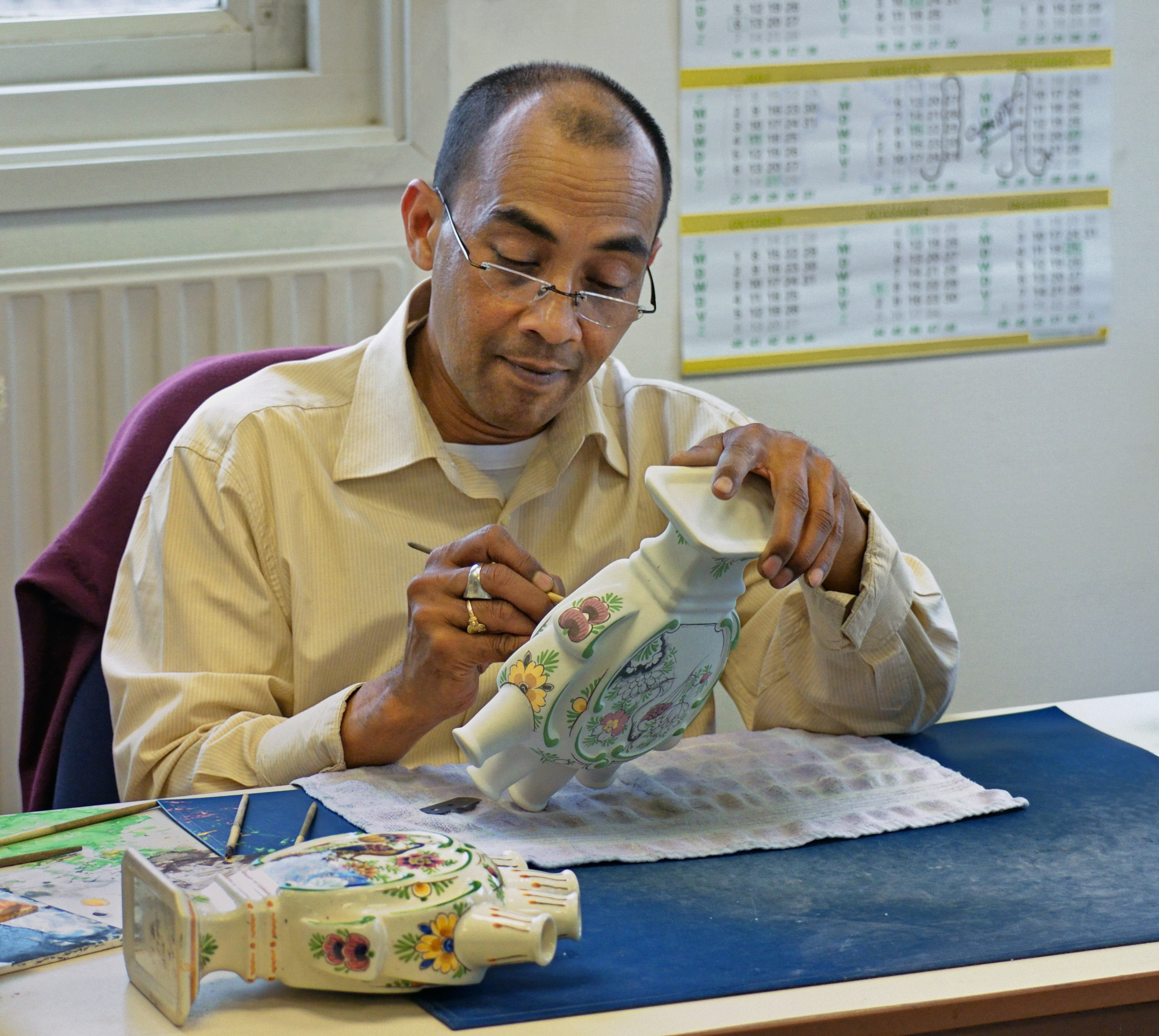 Painting of color Delft pottery. 2012